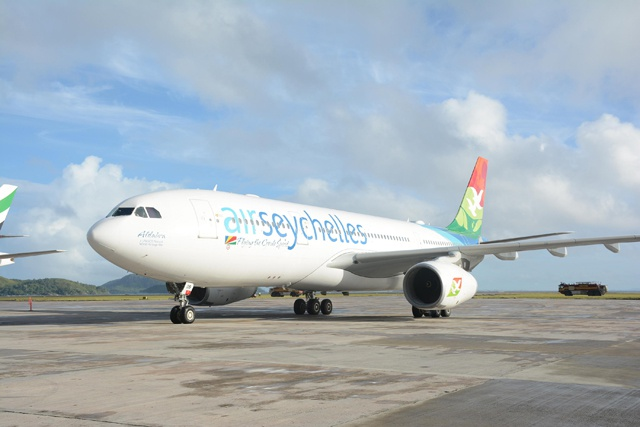 Newly Seychelles registered aircraft Airbus A330 'Aldabra' arrived to Seychelles International Airport on October 23, 2015.